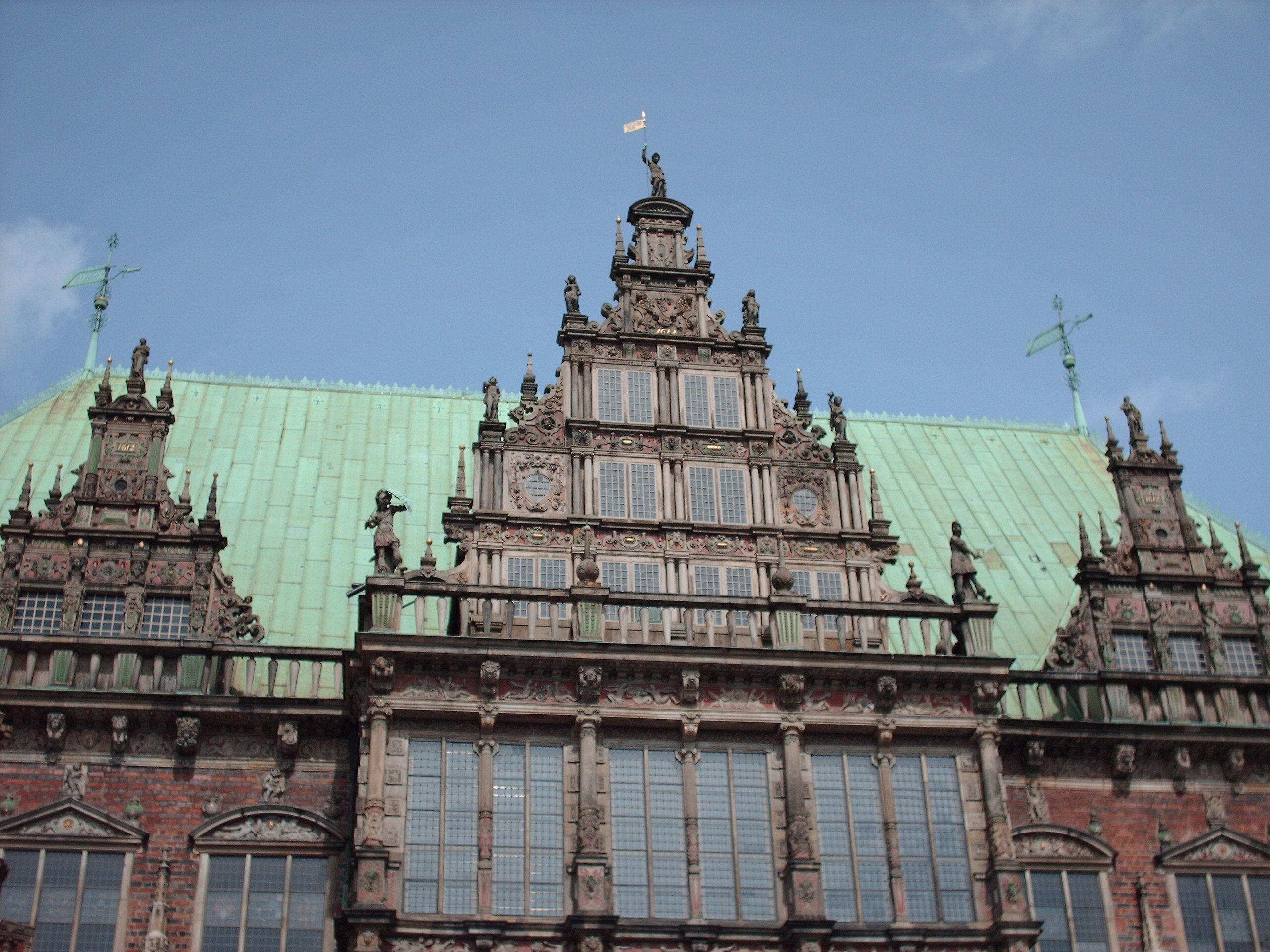 DE: (Rathaus). - EN: The town hall - Bremen City in Germany.